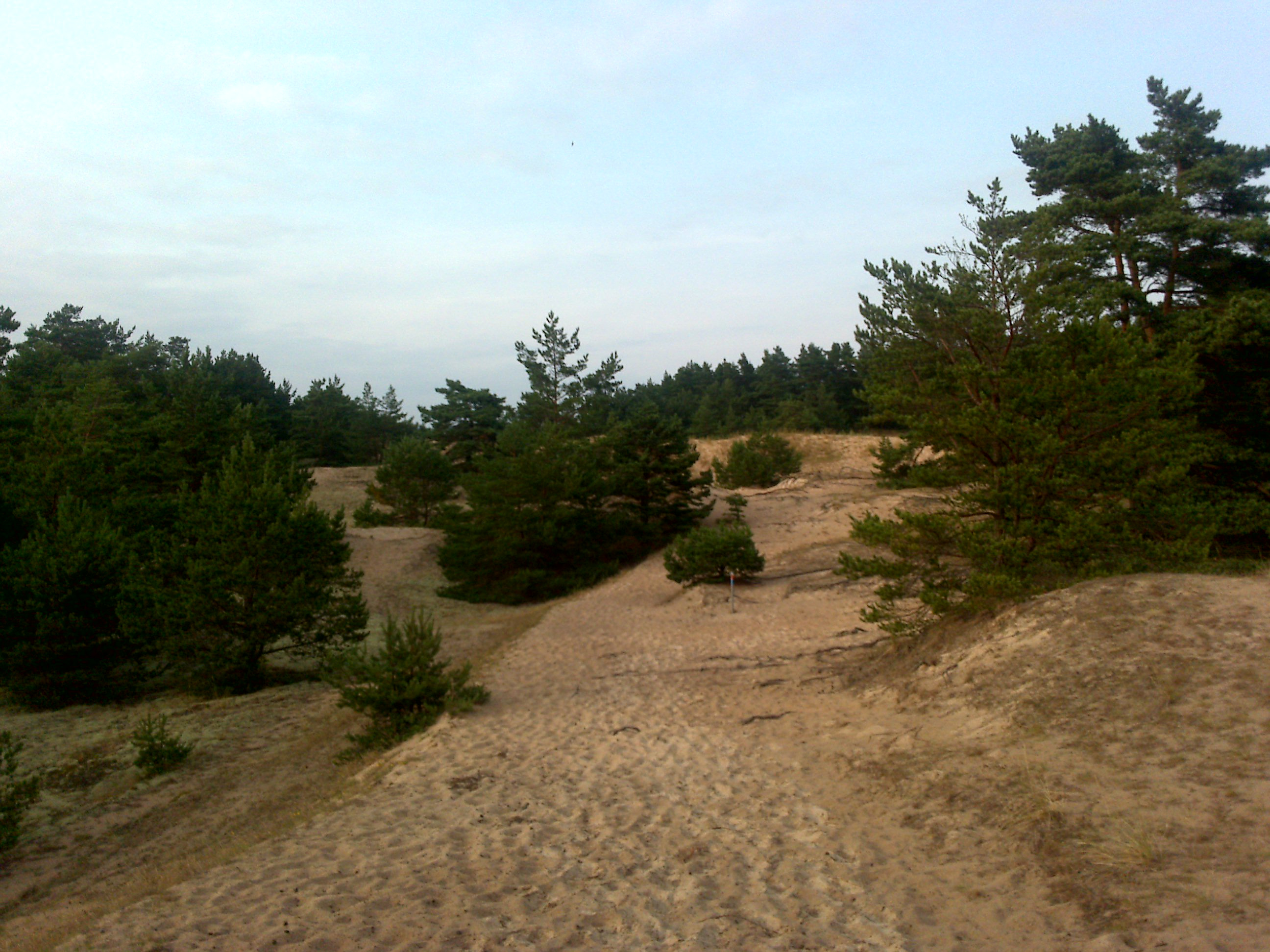 Ulla hau, Fårö, Gotland, Sweden